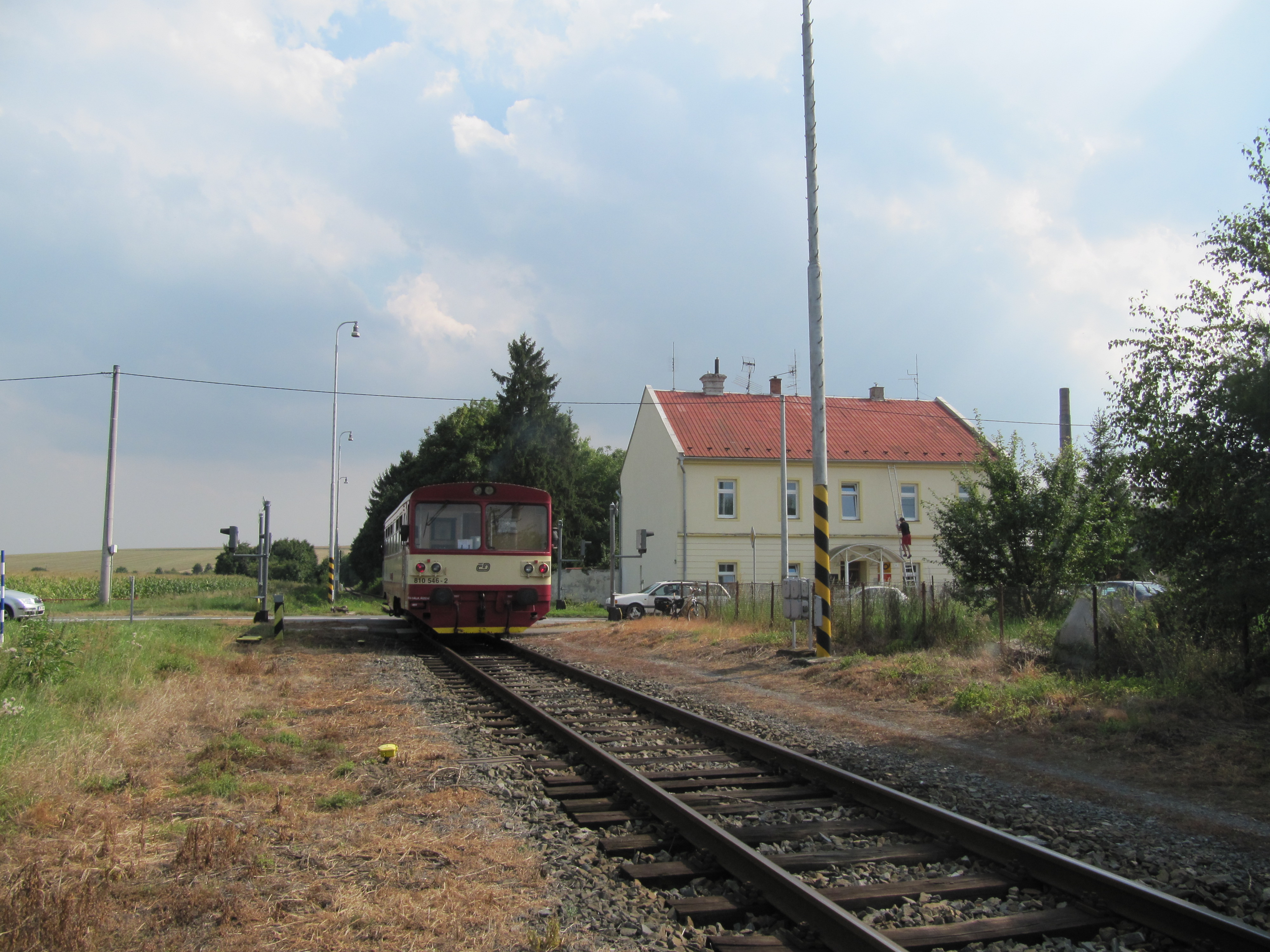 Drahanovice in Olomouc District, Czech Republic. Rail crossing.